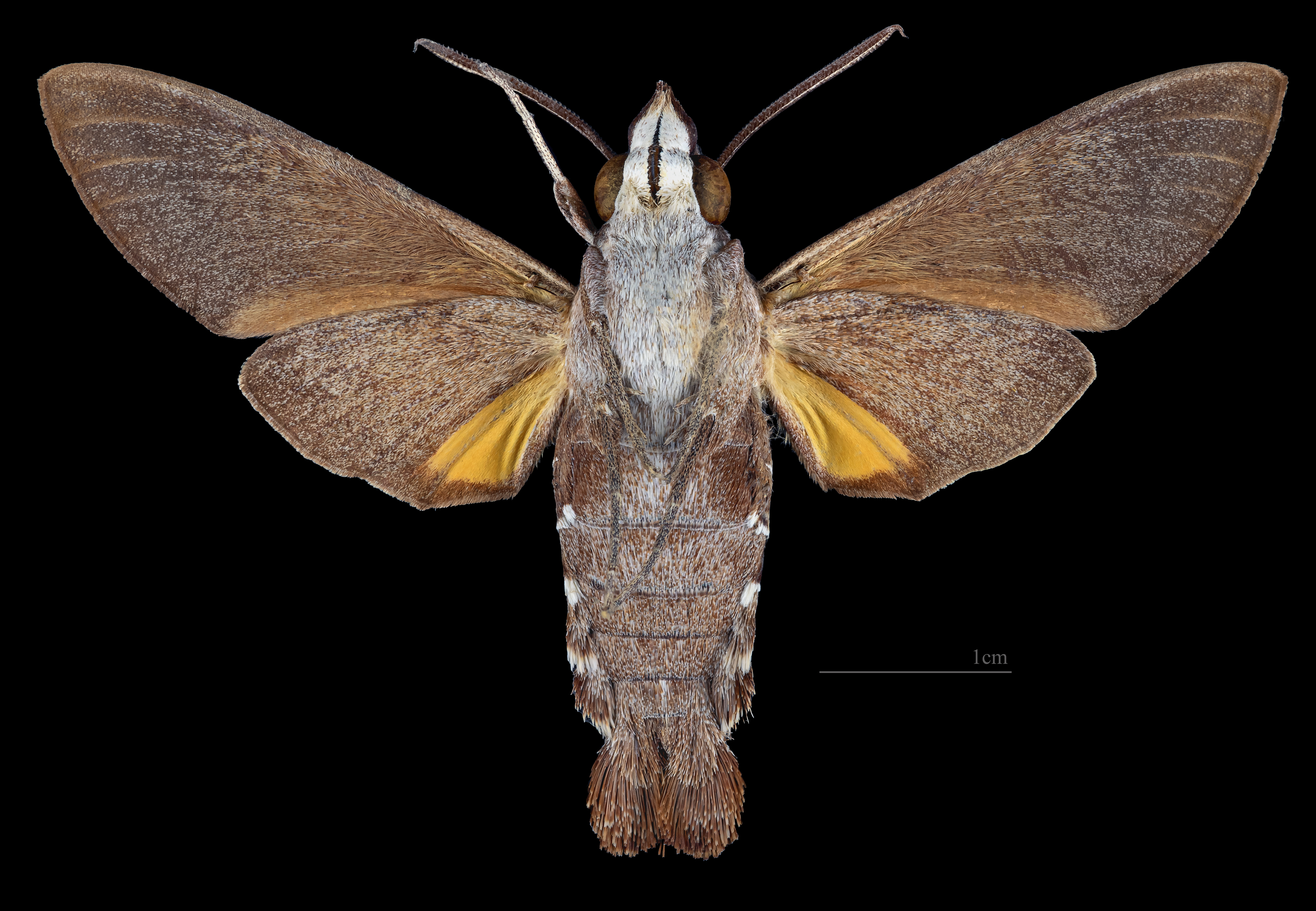 Macroglossum hirundo - △ Ventral side Collection of the Mathematician Laurent Schwartz